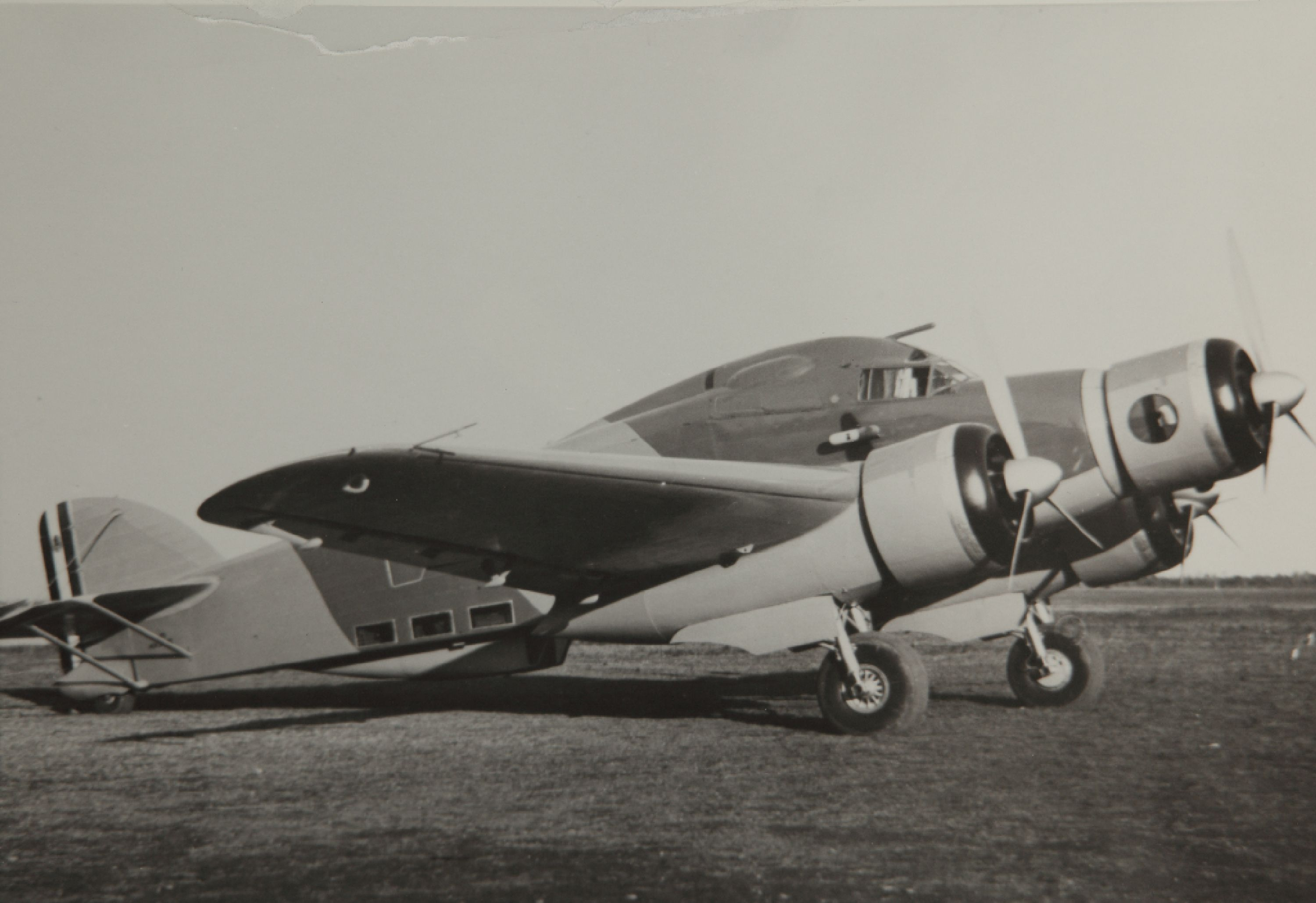 Savoia-Marchetti SM.79 Sparviero